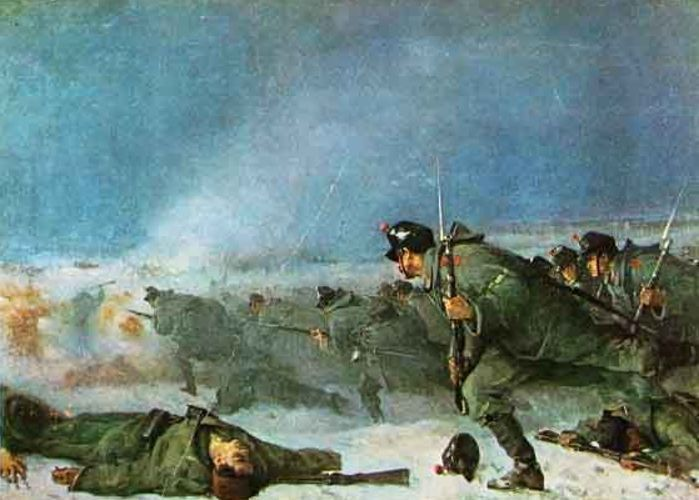 There is an impetuous attack on the Romanian infantry against the Ottoman Ottoman offensive at Smardan. Scene of an impressive expressive force on the force and impulse of the local aristocracy, raised to the extent of synthesis by the author of the painting. The painting is framed with a wooden frame painted with golden bronze. It is signed and dated in the lower left with red.